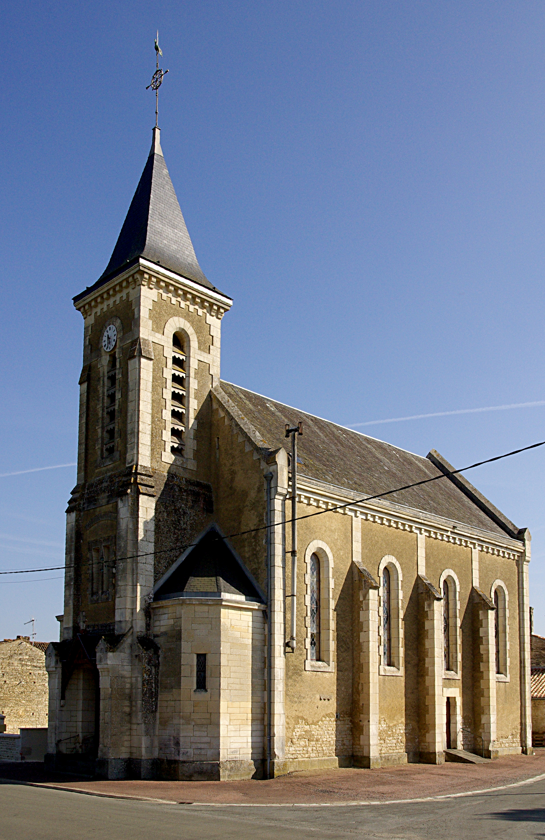 The church of Le Mazeau village in Vendée.